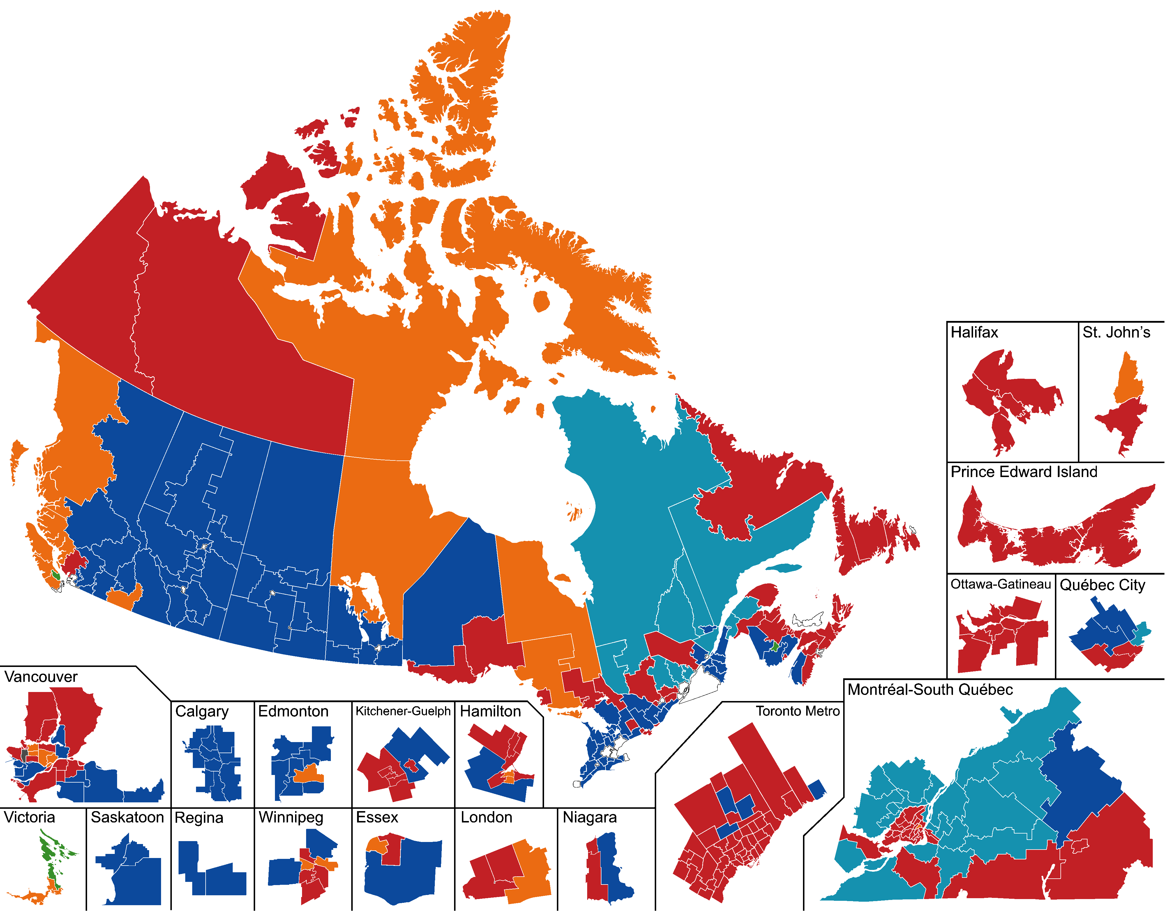 A map depicting the preliminary results of the 2019 Canadian federal election